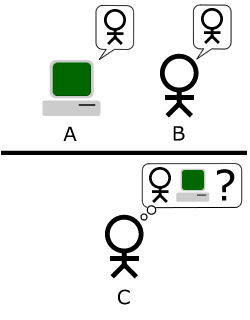 The "standard interpretation" of the Turing Test, in which player C, the interrogator, is tasked with trying to determine which player - A or B - is a computer and which is a human. The interrogator is limited to only using the responses to written questions in order to make the determination.